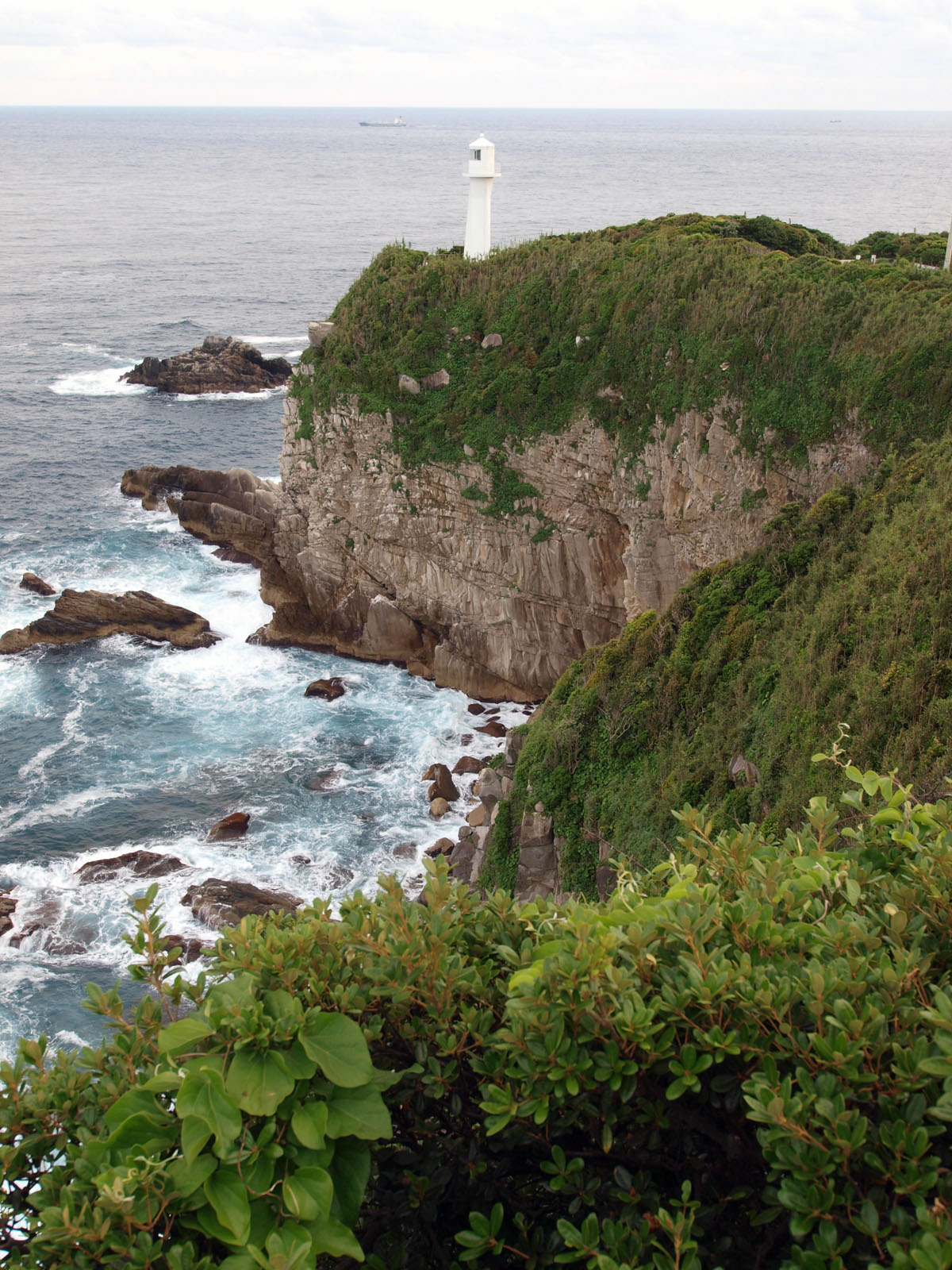 Ashizuri-misaki, Tosa-shimizu-shi, Kochi-ken, Japan